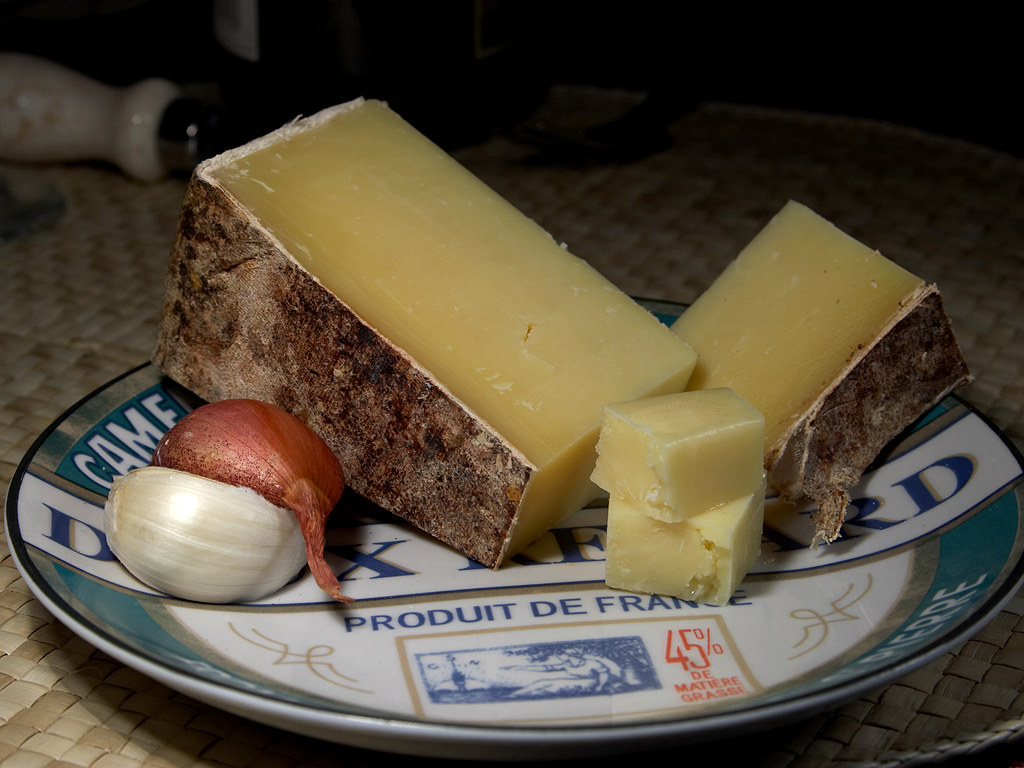 Borough Market Cheddar cheese